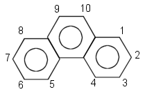 Structure of phenanthrene Image created by SudhirP at en.wikipedia.